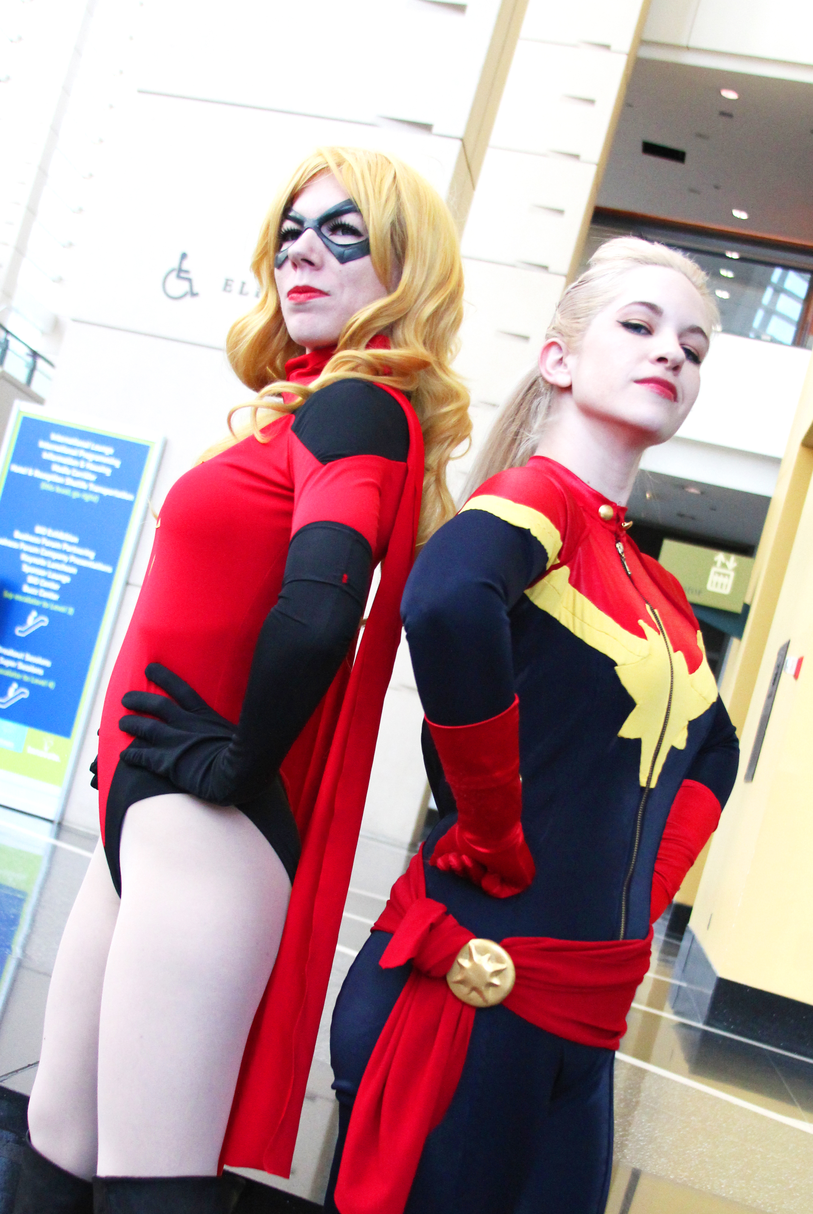 Cosplay at the 2013 Chicago Comic & Entertainment Expo (C2E2).